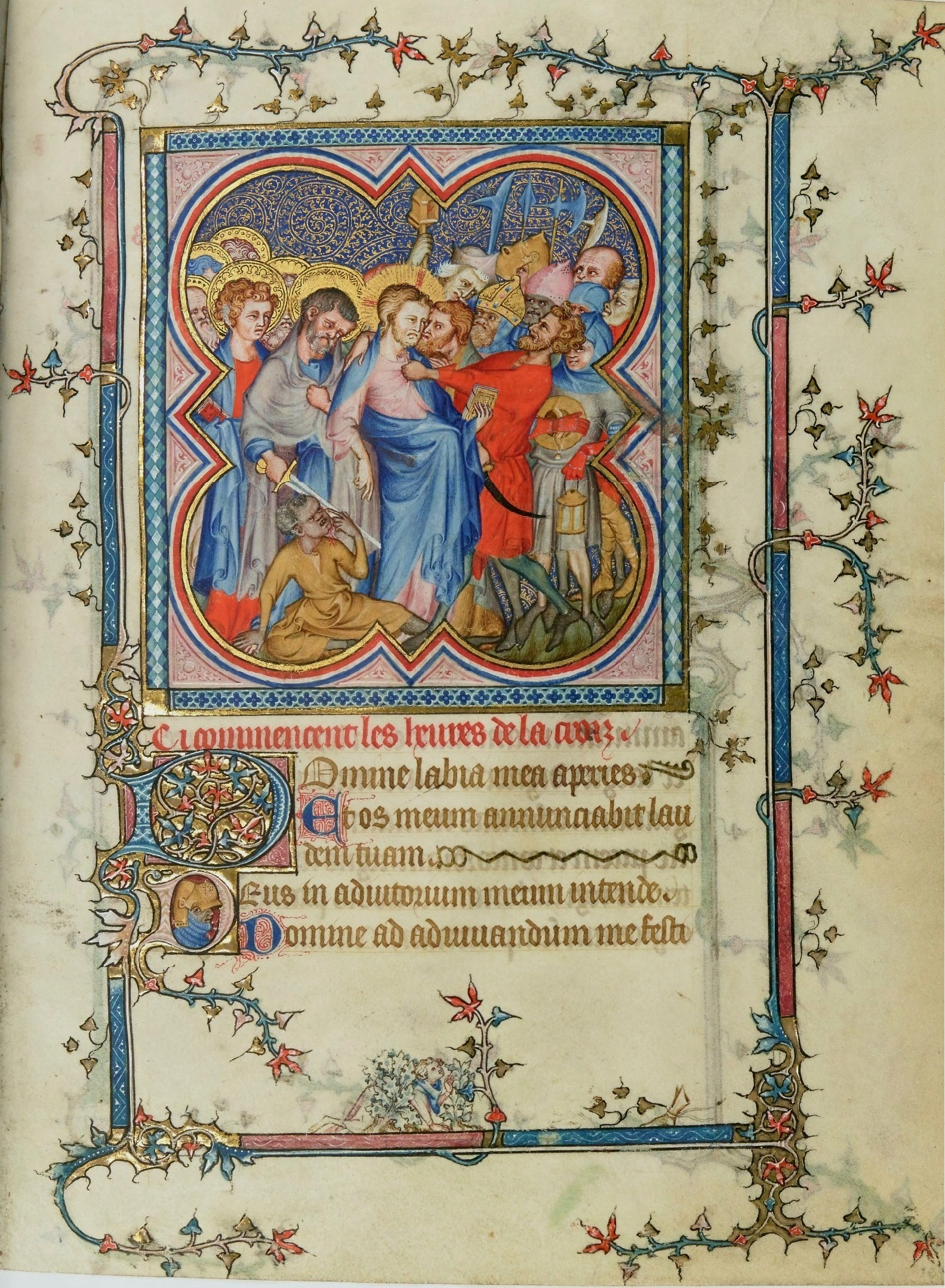 Jean Le Noir. Miniature from Hours of Jeanne de Navarre. 1336-40 Paris, Bibliothèque nationale de France.